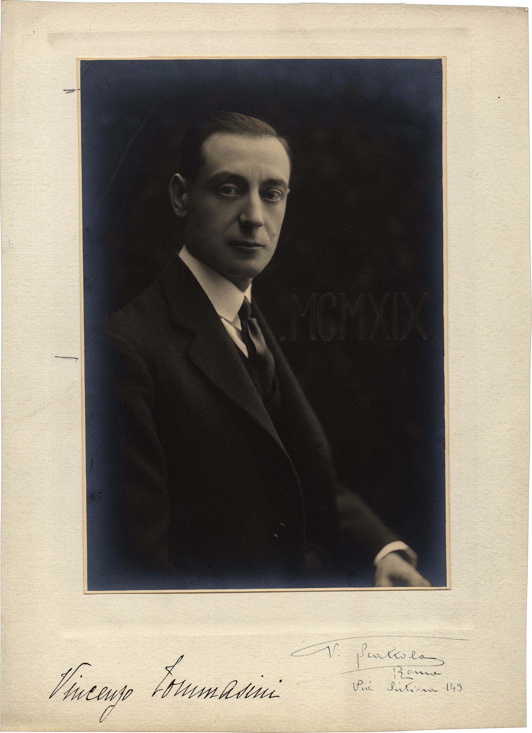 Portrait of Vincenzo Tommasini, composer (1880-1950). Photo by V. Scattola, Roma, before 1950.